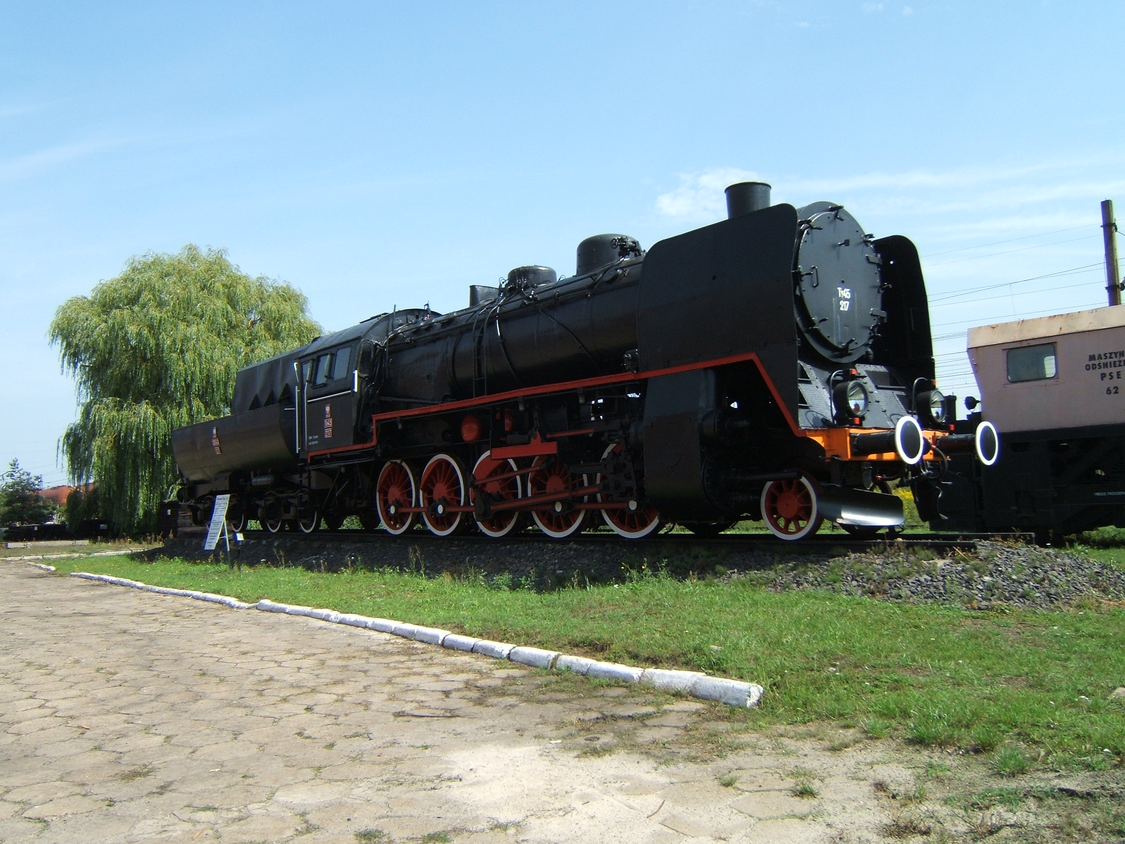 Ty45-217 as a monument in Tarnowskie Góry